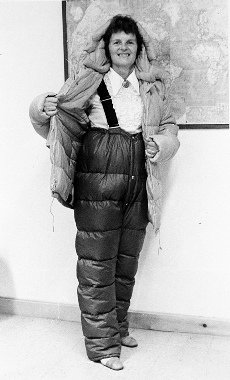 Dr. Ursula Marvin, geologist at the Harvard-Smithsonian Center for Astrophysics, displaying her Antarctic gear. Dr. Marvin is part of the 1978-1979 United States Antarctic Research Program sponsored by the National Science Foundation, and will search for meteorites from the base at McMurdo Station, the American Antarctic research center located on the southern tip of Ross Island on the shore of McMurdo Sound. The nine week expedition from December 1978 to January 1979 will include Japanese and American scientists. Until 1970, only 2,000 different meteorites had ever been identified, but that year a Japanese expedition located a large concentration of meteorites on the White Continent. Since then more than a thousand new specimens have been added to world collections